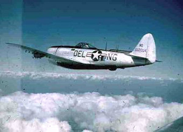 Republic P-47N-20-RA Thunderbolt 45-50034, 142d Fighter Squadron, Delaware ANG